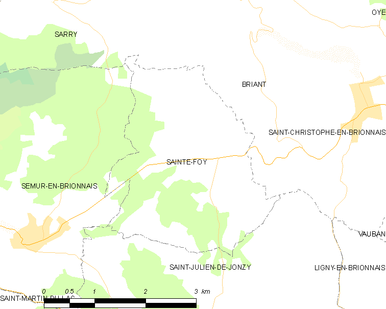 Map of French municipality